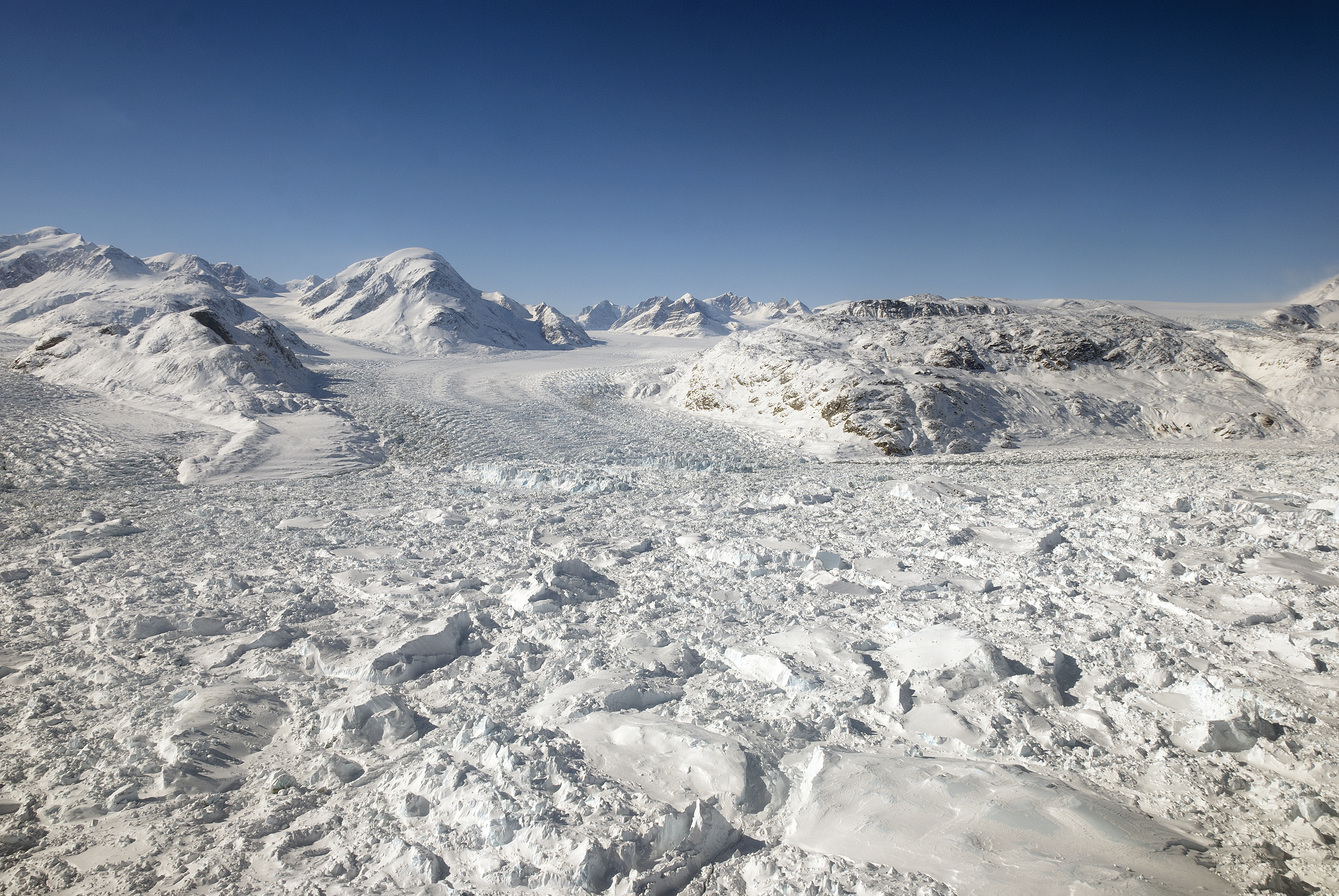 On April 19, IceBridge's 23rd flight of the Arctic 2011 campaign surveyed numerous glaciers in southeast Greenland including Kangerdlugssuaq Glacier. The calving front of the glacier gives way to ice floating in the fjord, referred to by some as a sikkusak, or mélange. Credit: Michael Studinger Operation IceBridge, now in its third year, makes annual campaigns in the Arctic and Antarctic where science flights monitor glaciers, ice sheets and sea ice.